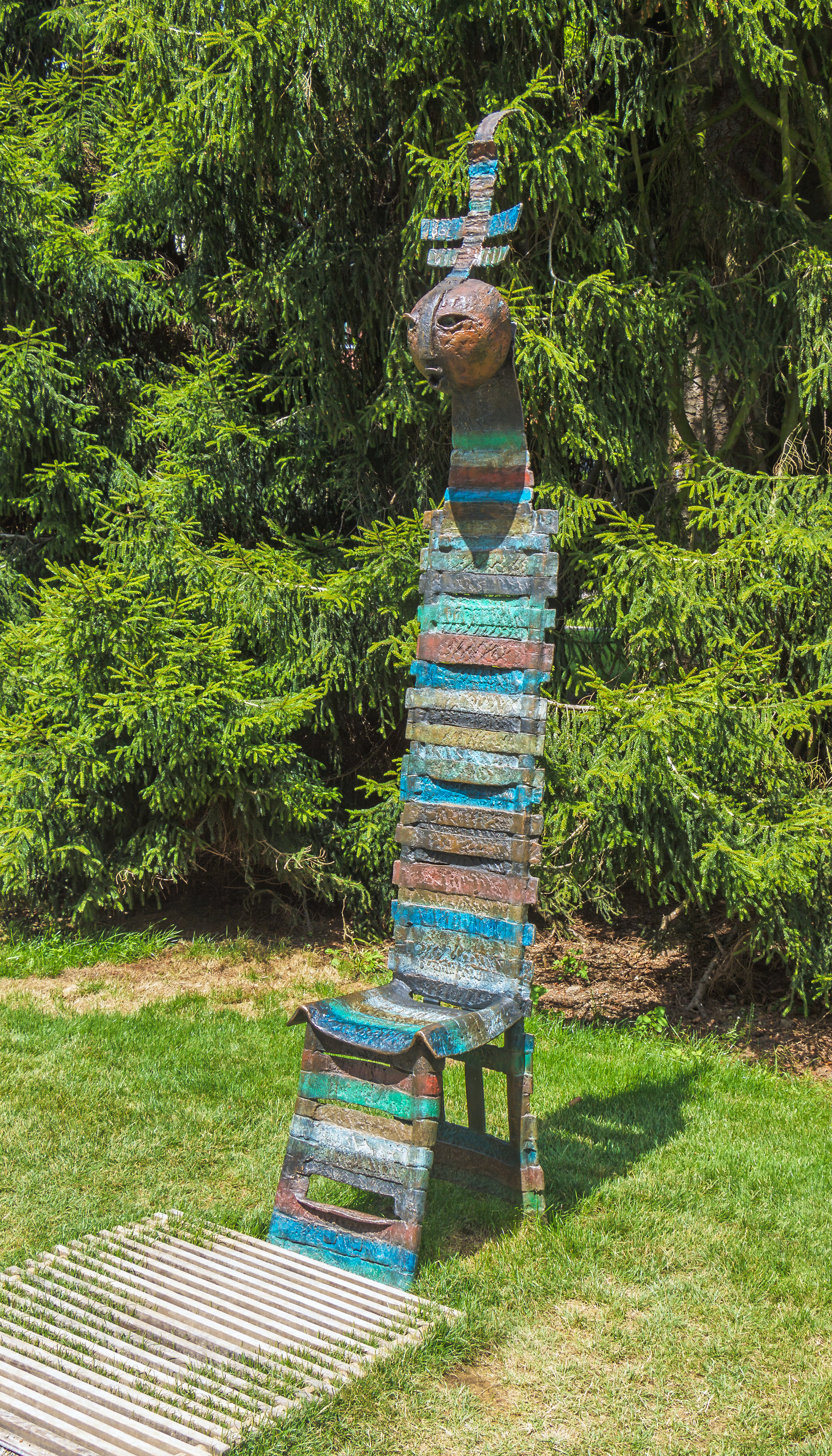 "Chair" by Bettina Scholl-Sabbatini, bronze; Spa park, Bad Herrenalb, Baden-Württemberg, Germany.